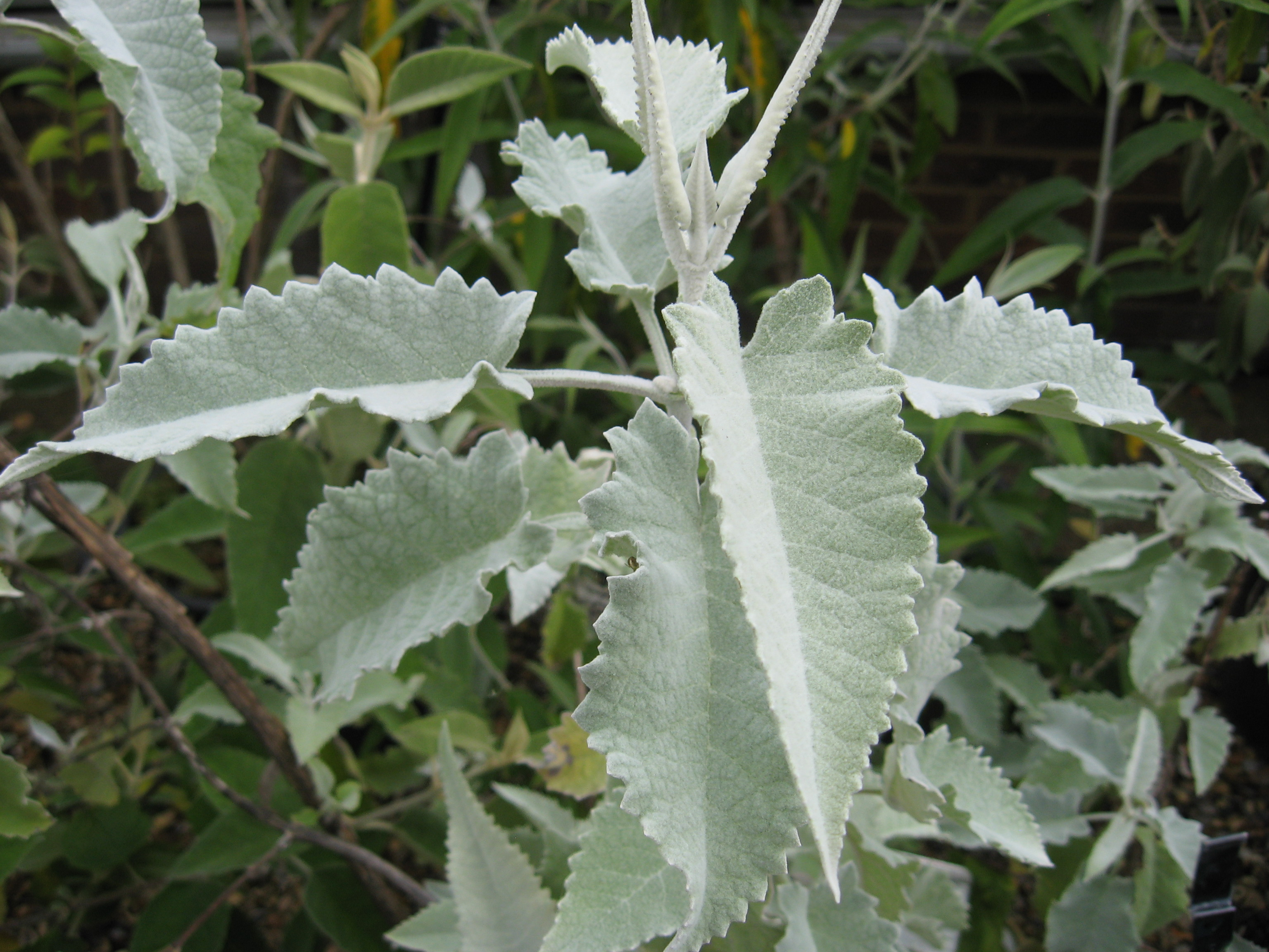 Photo of foligae of Buddleja agathosma